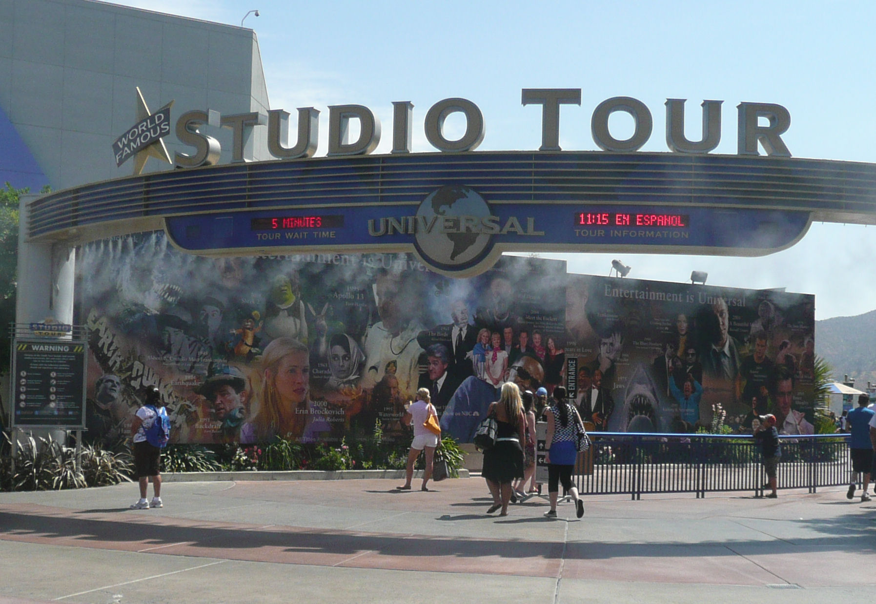 Studio Tour's entrance of Universal Studios